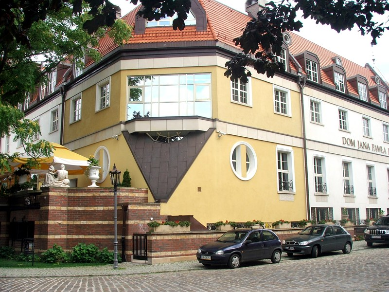 Back of Home Johns Paul II in Wrocław.